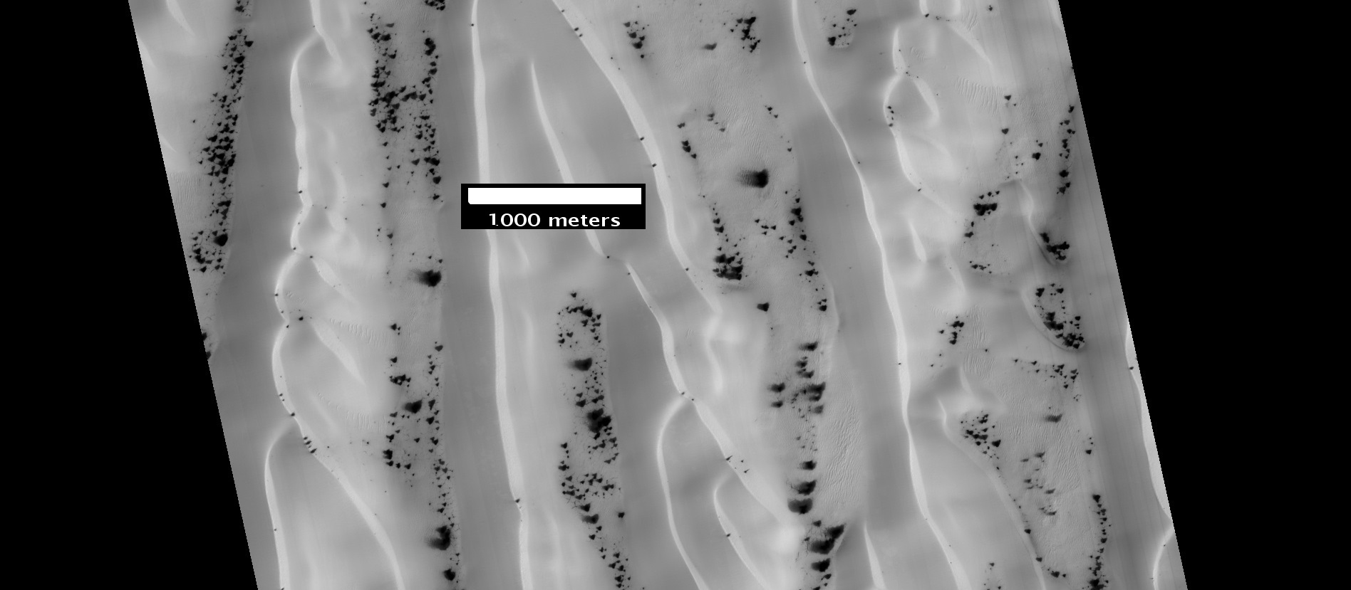 Richardson Crater Crater Dunes and defrosting spots, as seen by HiRISE